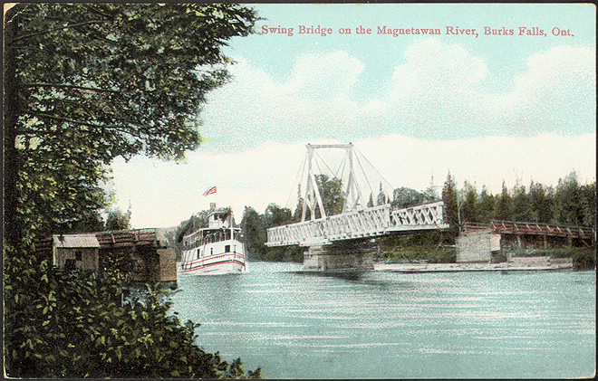 Post card of a steamship crossing past a swing bridge on the Magnetewan River, 1910. This image is available from the Toronto Public Library under the reference number Card Serial No. A. 730. 1112.This tag does not indicate the copyright status of the attached work. A normal copyright tag is still required. See Commons:Licensing. English | français | +/−